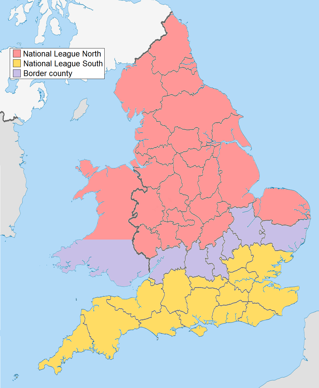 Map showing the counties covered by Football Conference North and South.